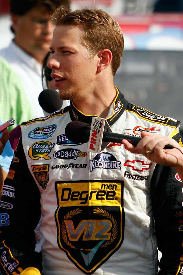 Brad Keslowski before a race.